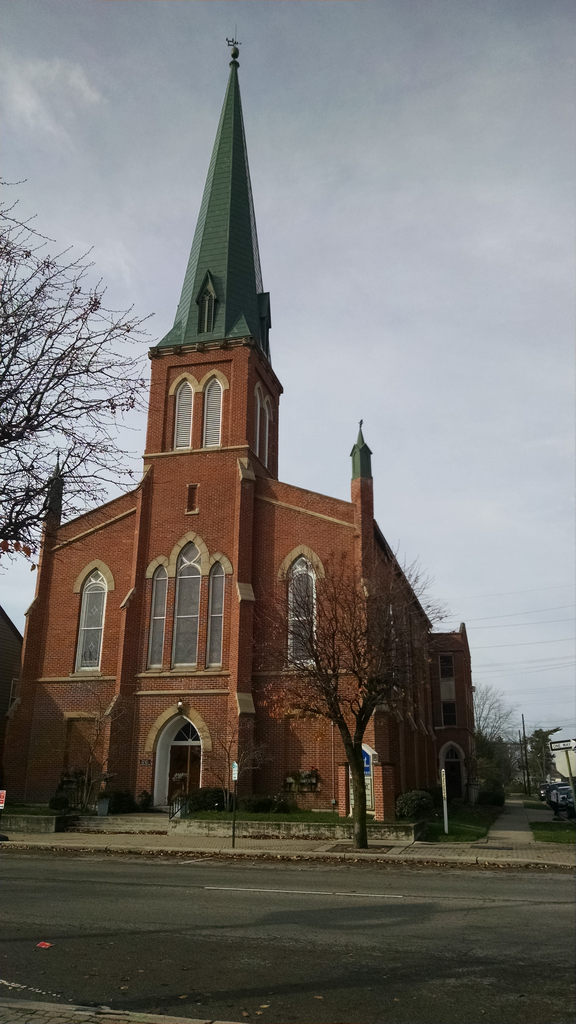 The Franklin First United Methodist Church (Ohio) from the front, facing westward in the daytime.